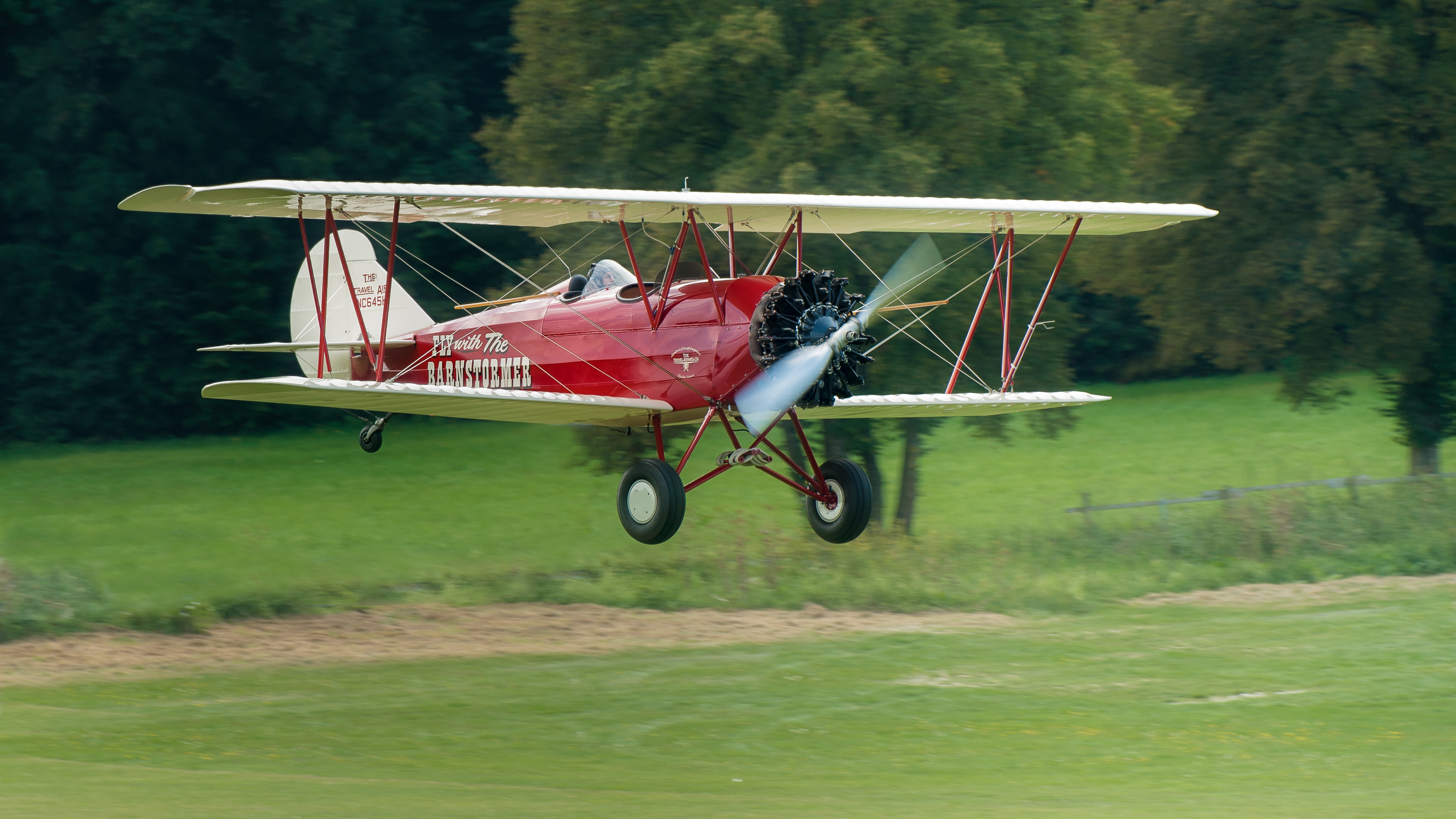 A Curtiss Wright Travel Air E4000 lands during the 2013 vintage airshow at Hahnweide airfield near Kirchheim unter Teck, Germany